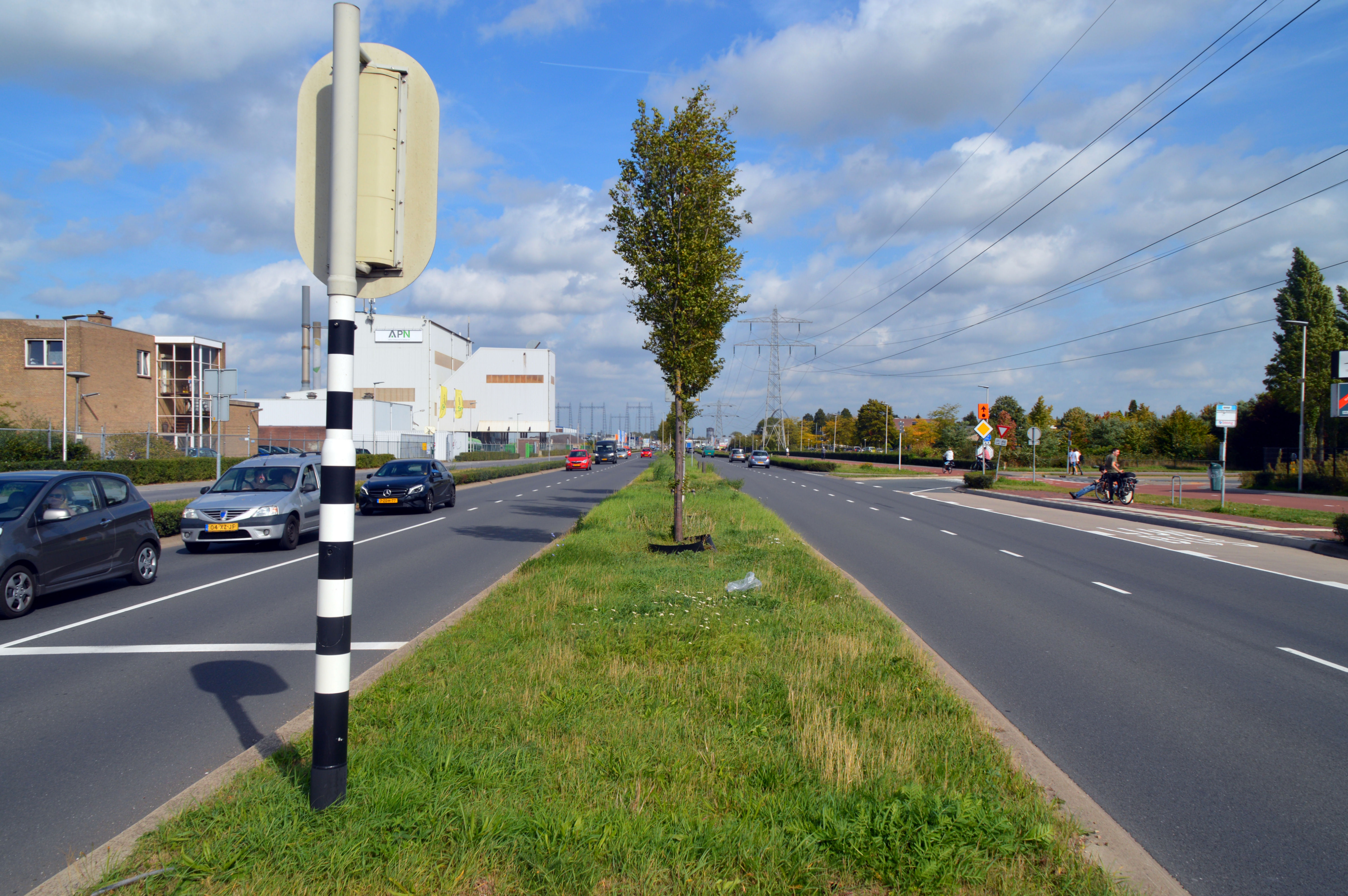 Energieweg, Haven- en industrieterrein, Nijmegen